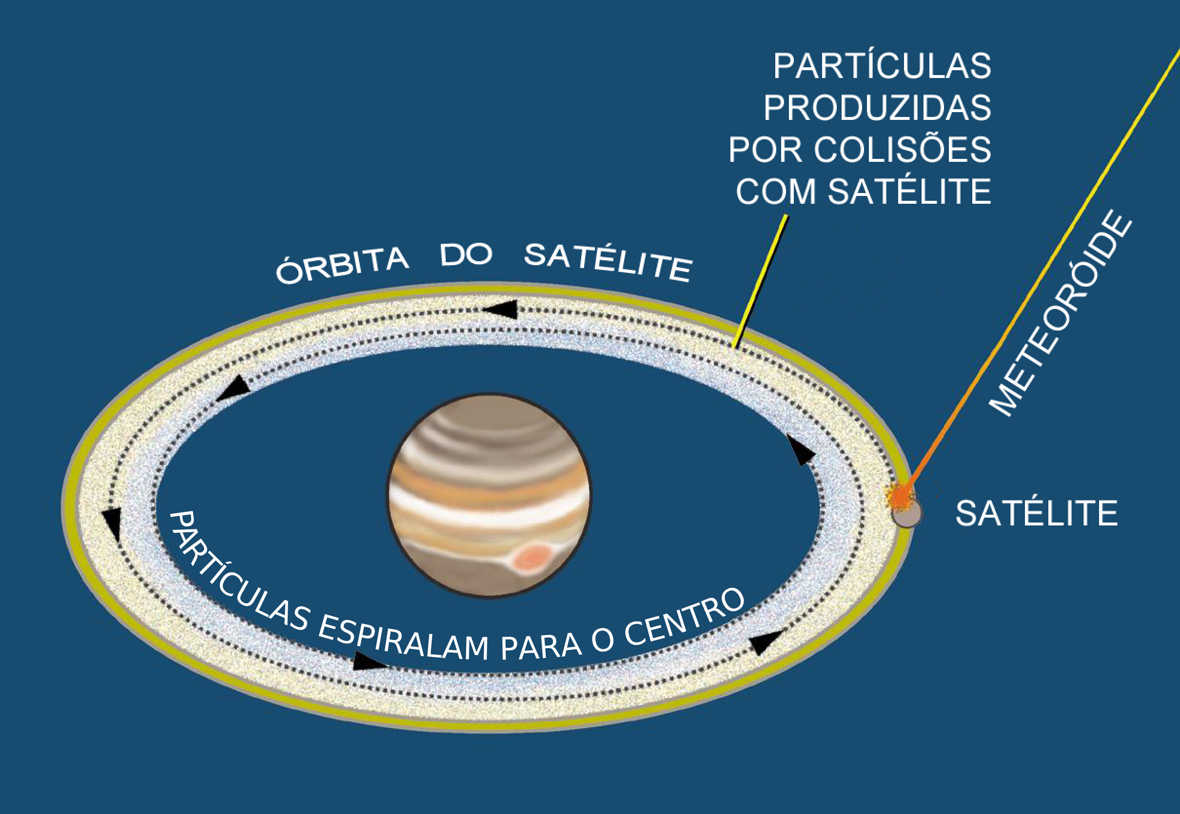 How the rings of Jupiter are formed.